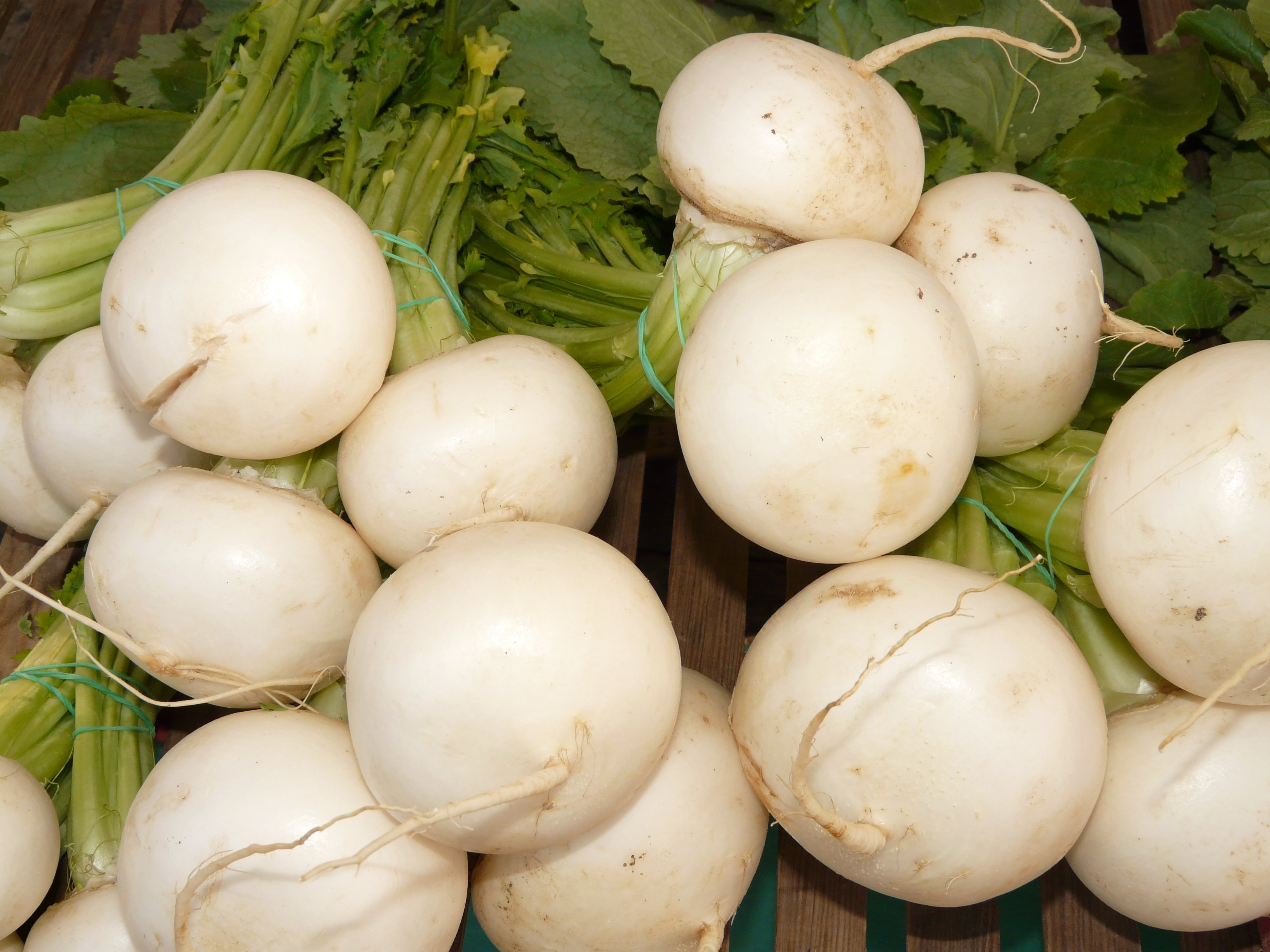 Turnips.